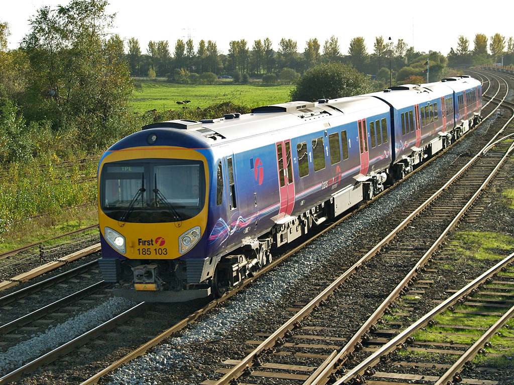 TransPennine Express (leased from HSBC Rail (UK) Limited) Siemens class 185 ‘Desiro UK’ three car diesel-hydraulic multiple unit number 185103 (51103, 53103, and 54103) of Ardwick TMD passes by Castleton East Junction on the Down Main line forming the 13:10 Liverpool Lime Street to Scarborough (1E81). Sunday 29th October 2006